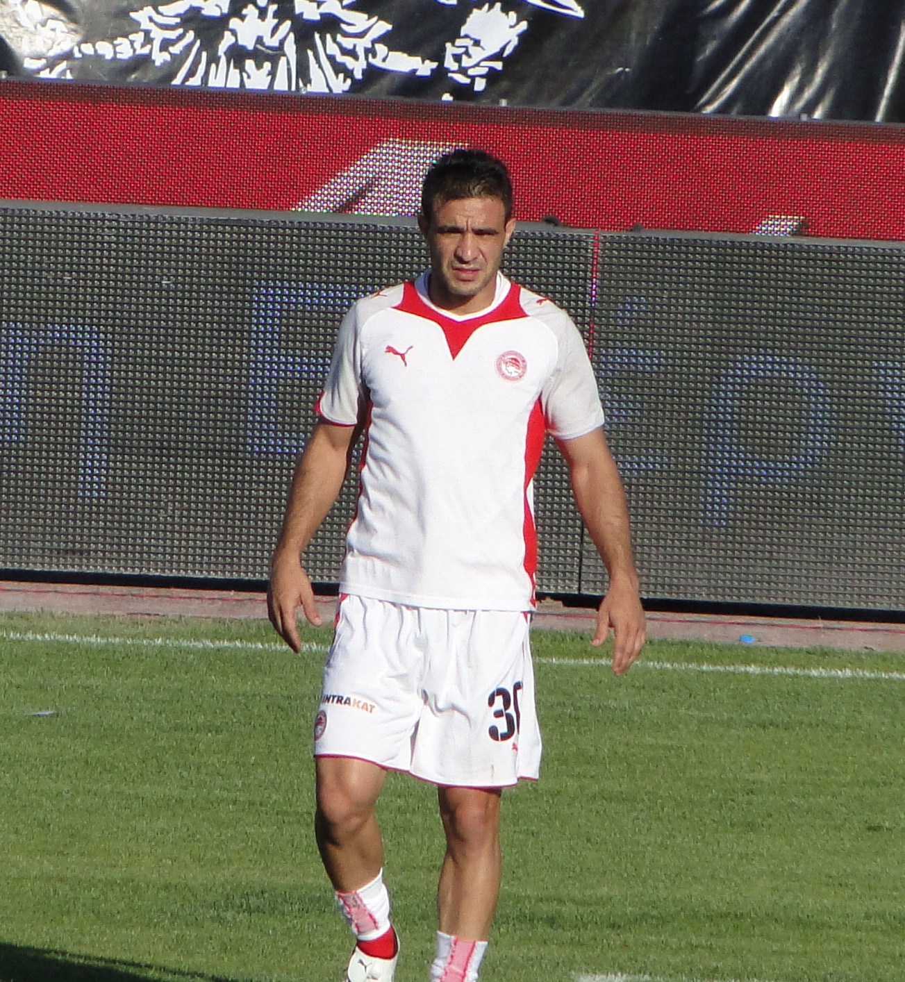 Tasos Pantos playing for Olympiacos in 2010.